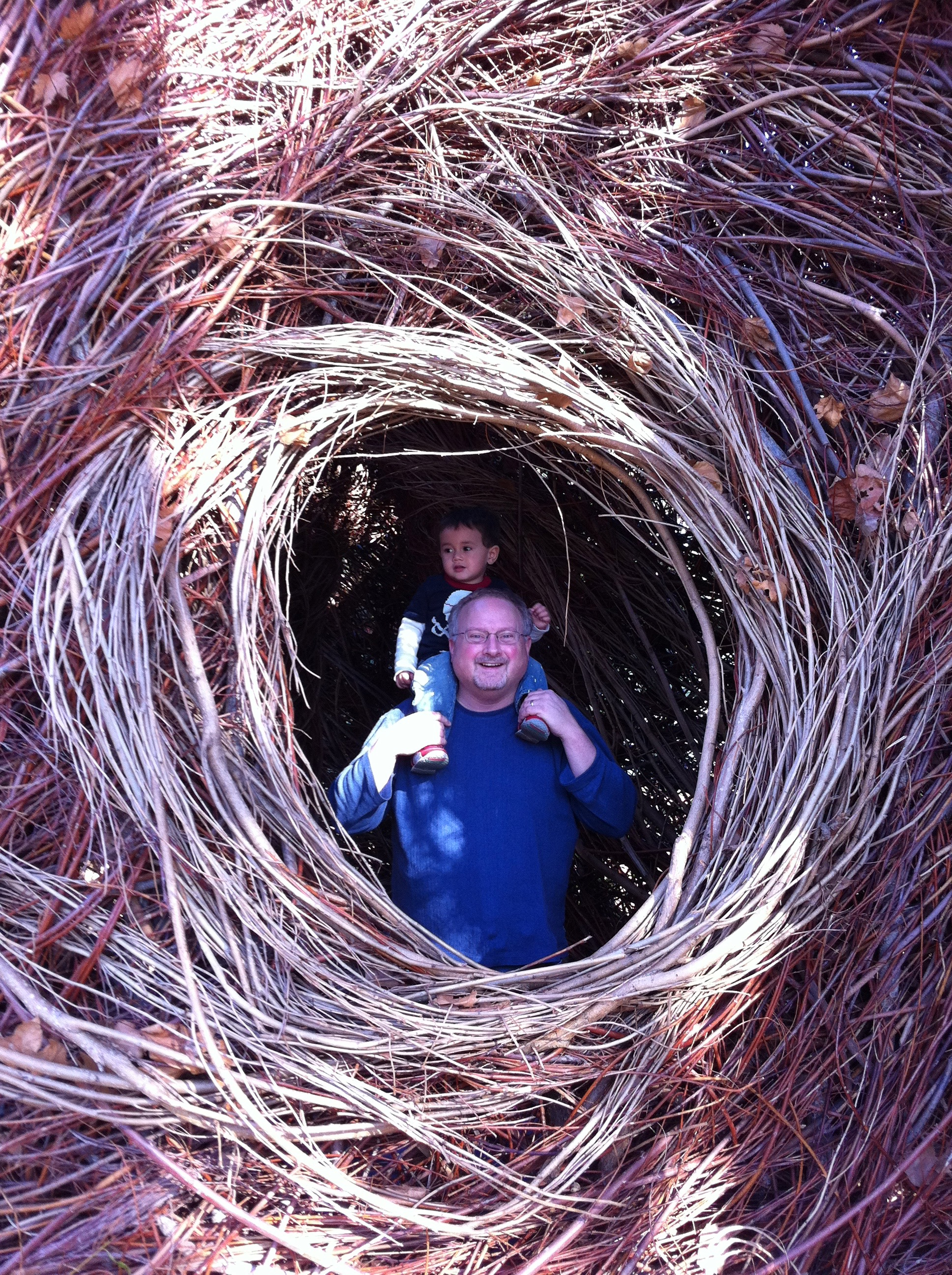 Visitors to the Palo Alto Art Center playing in the lawn sculpture